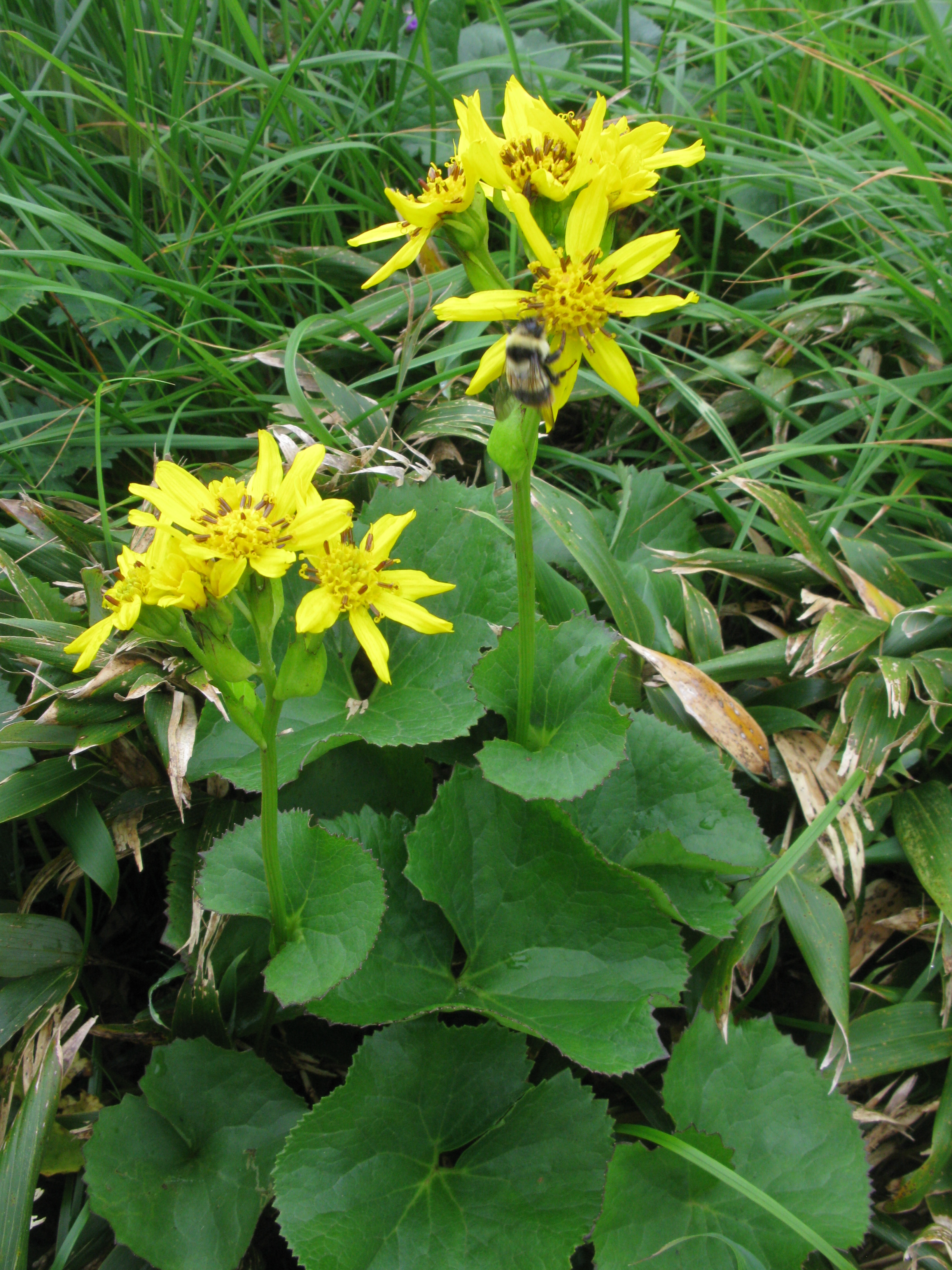 Ligularia hodgsonii, Mount Gassan, Yamagata pref., Japan